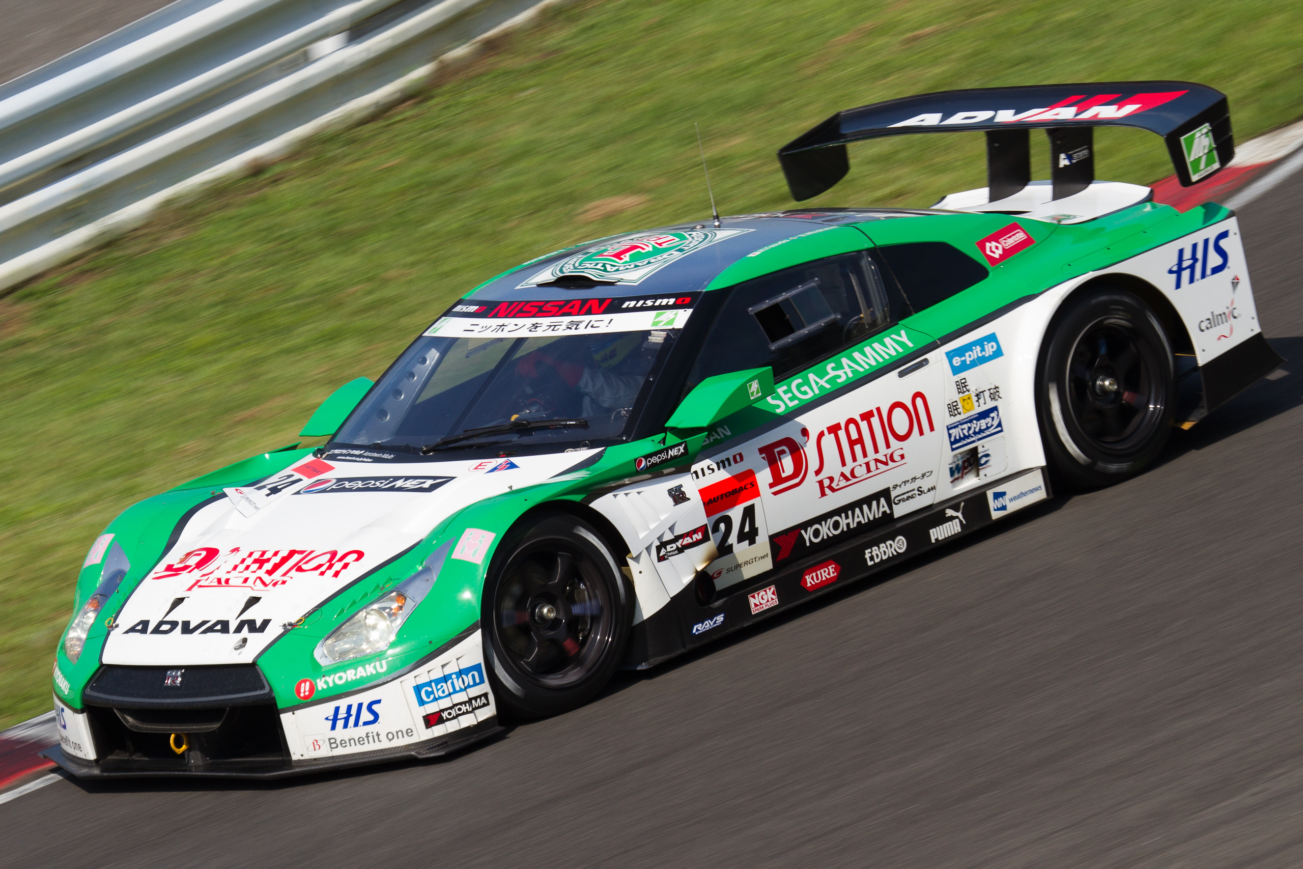 Super GT 2012 Rd.4 SUGO GT 300km: Björn Wirdheim (Kondo Racing) driving the Nissan GT-R GT500.